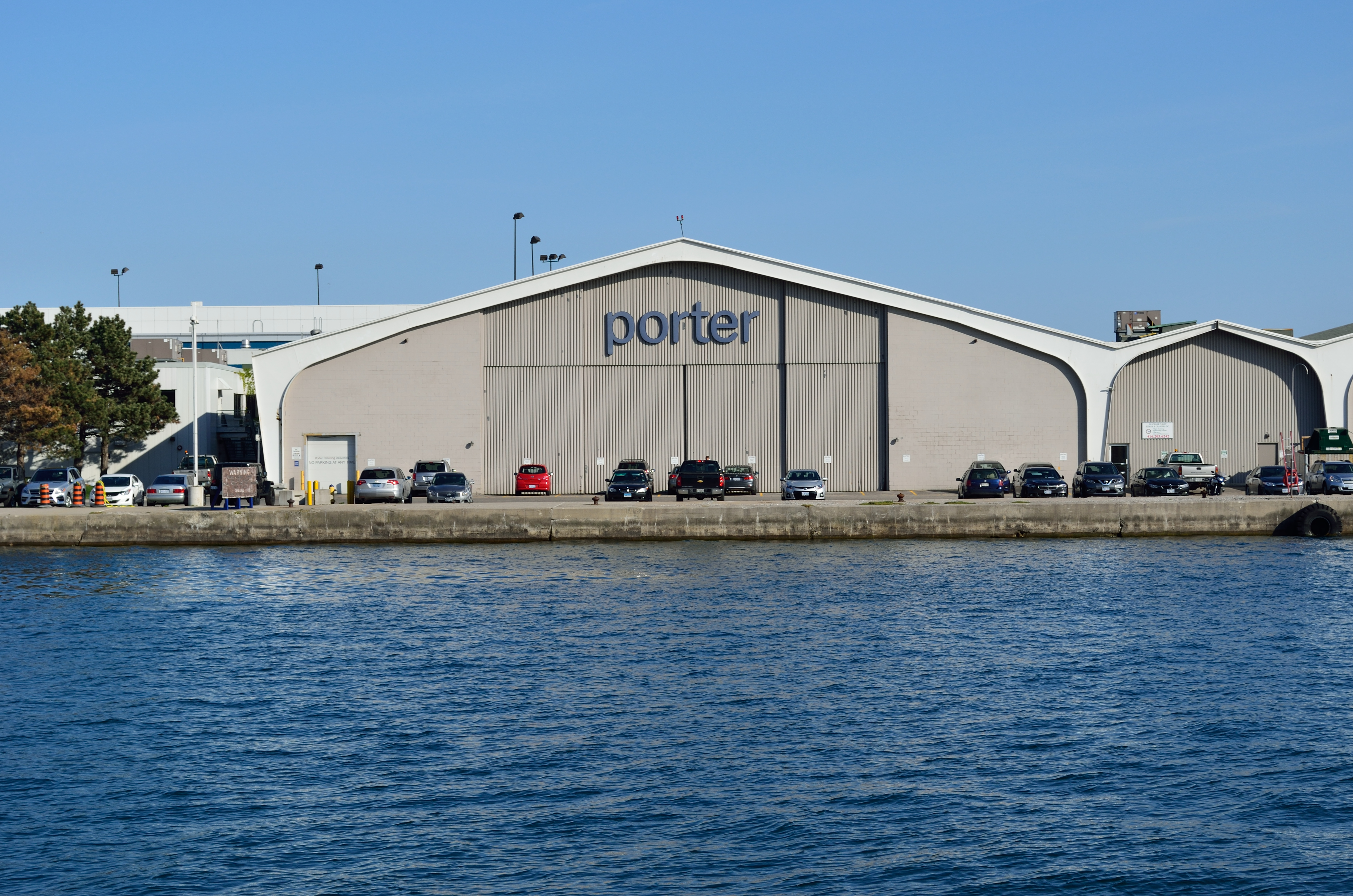 Porter Airlines Building at Billy Bishop Toronto City Airport